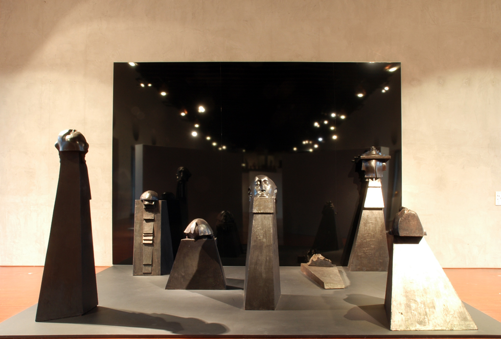 Instalation by Jan Koblasa, Wall for complaints, combined materials (1974)